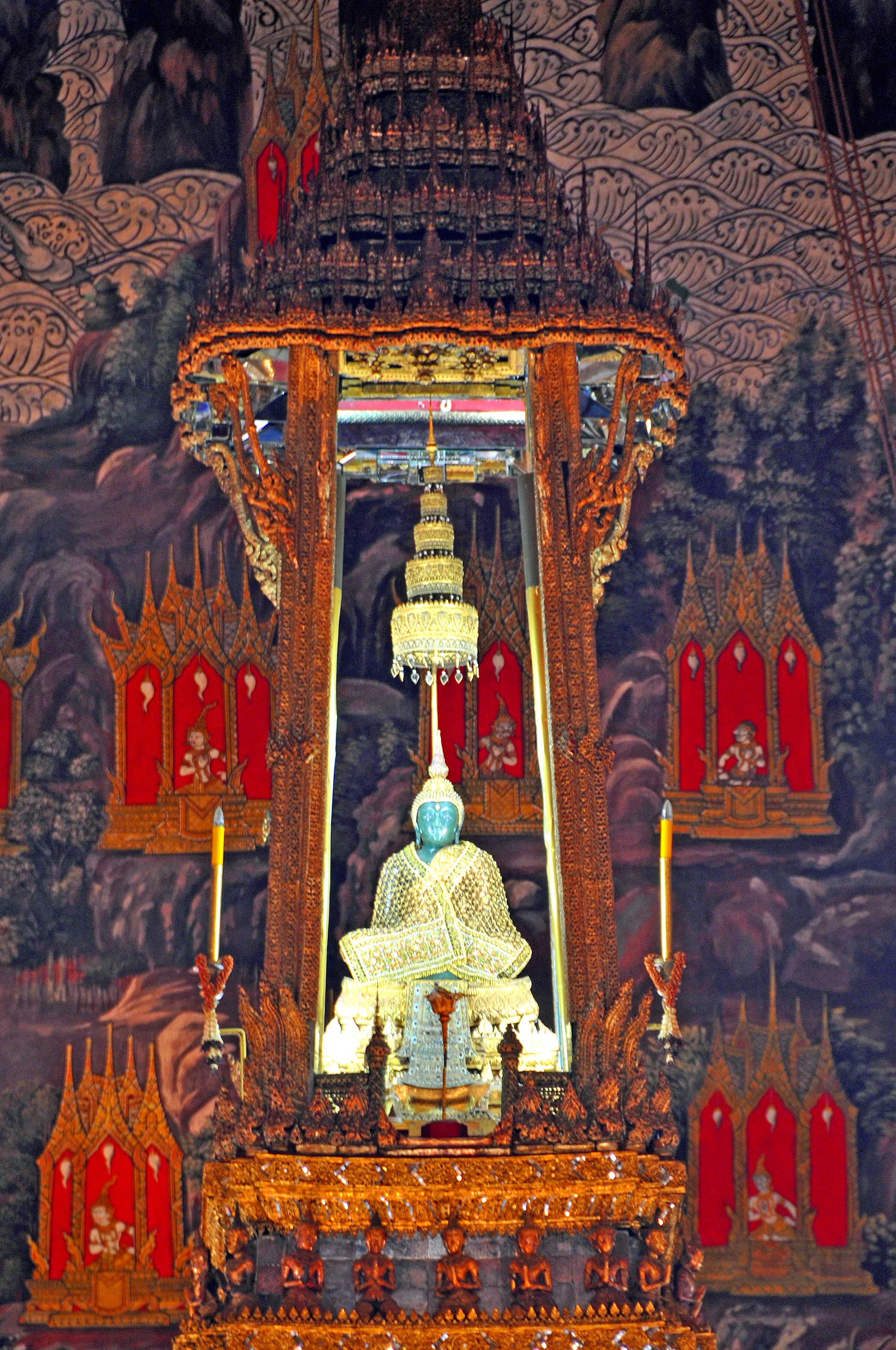 PLEASE, no multi invitations (none is better) in your comments. Thanks. The "Emerald Buddha" is carved from a block of jade. It is an object of national veneration and crowds come to pay respect to the memory of the Buddha and his teachings. Bangkok, Thailand No pictures are allowed in this room, these were taken from outside the building looking through the door.